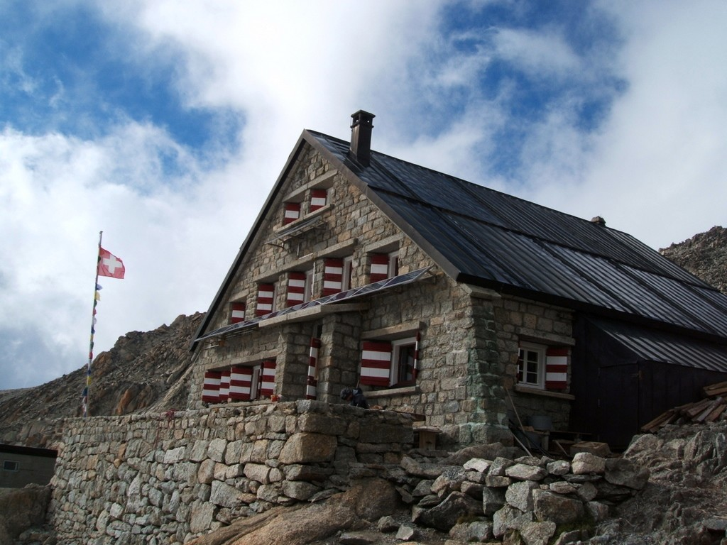 Cabane du Trient, an alpine hut of the Swiss Alpine Club (SAC), Valais, Switzerland.